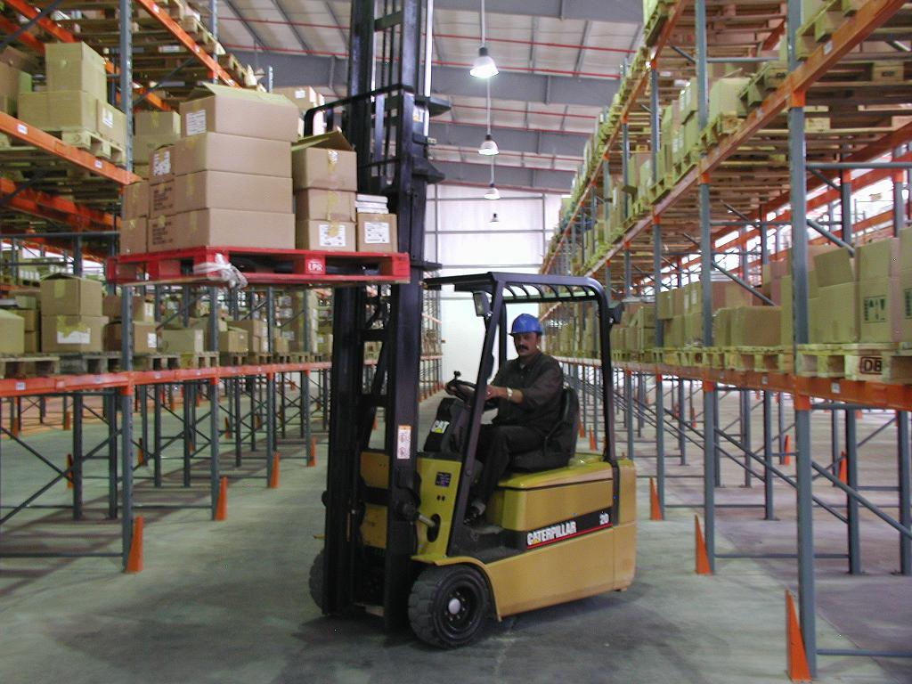 Forklift Warehouse